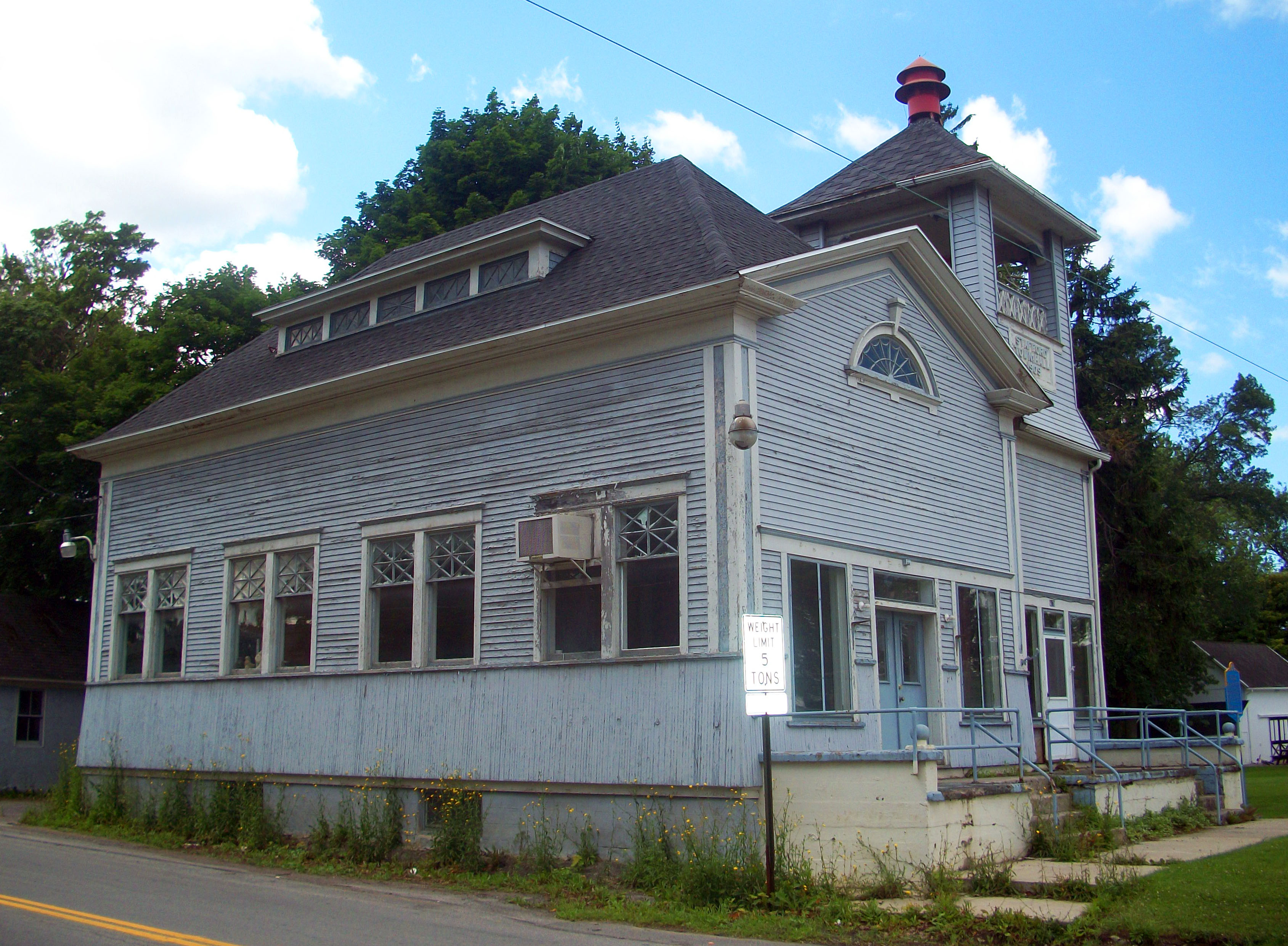 Former Sander Store and town hall, Stafford, NY, USA, a contributing property to the Stafford Village Four Corners Historic District